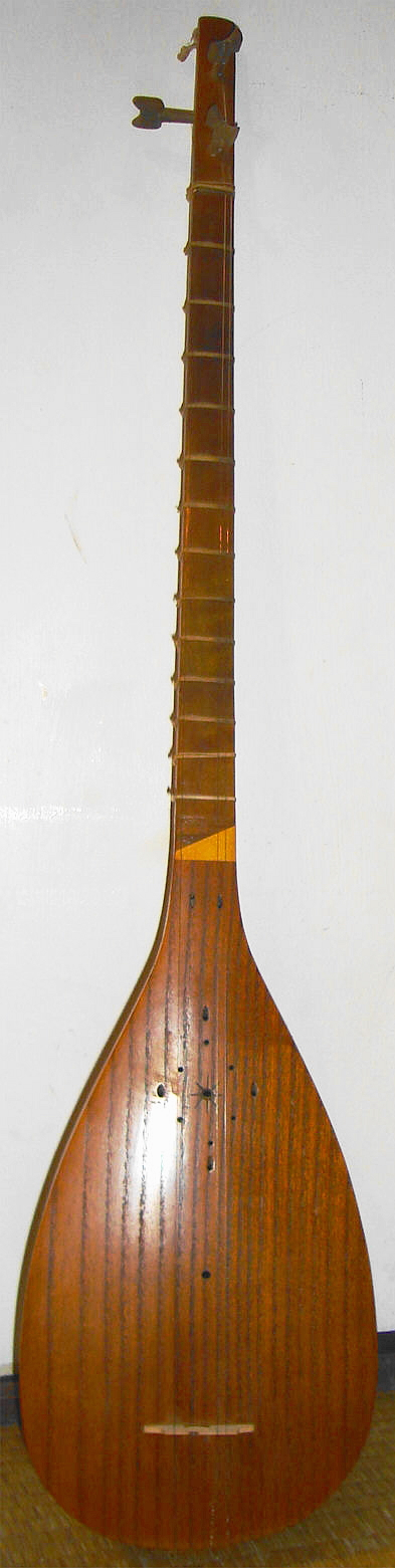 tambur (or Tembûr); Kurdish tanbur; Iranian tanbur